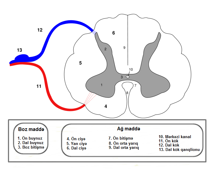 Spinal cord – section